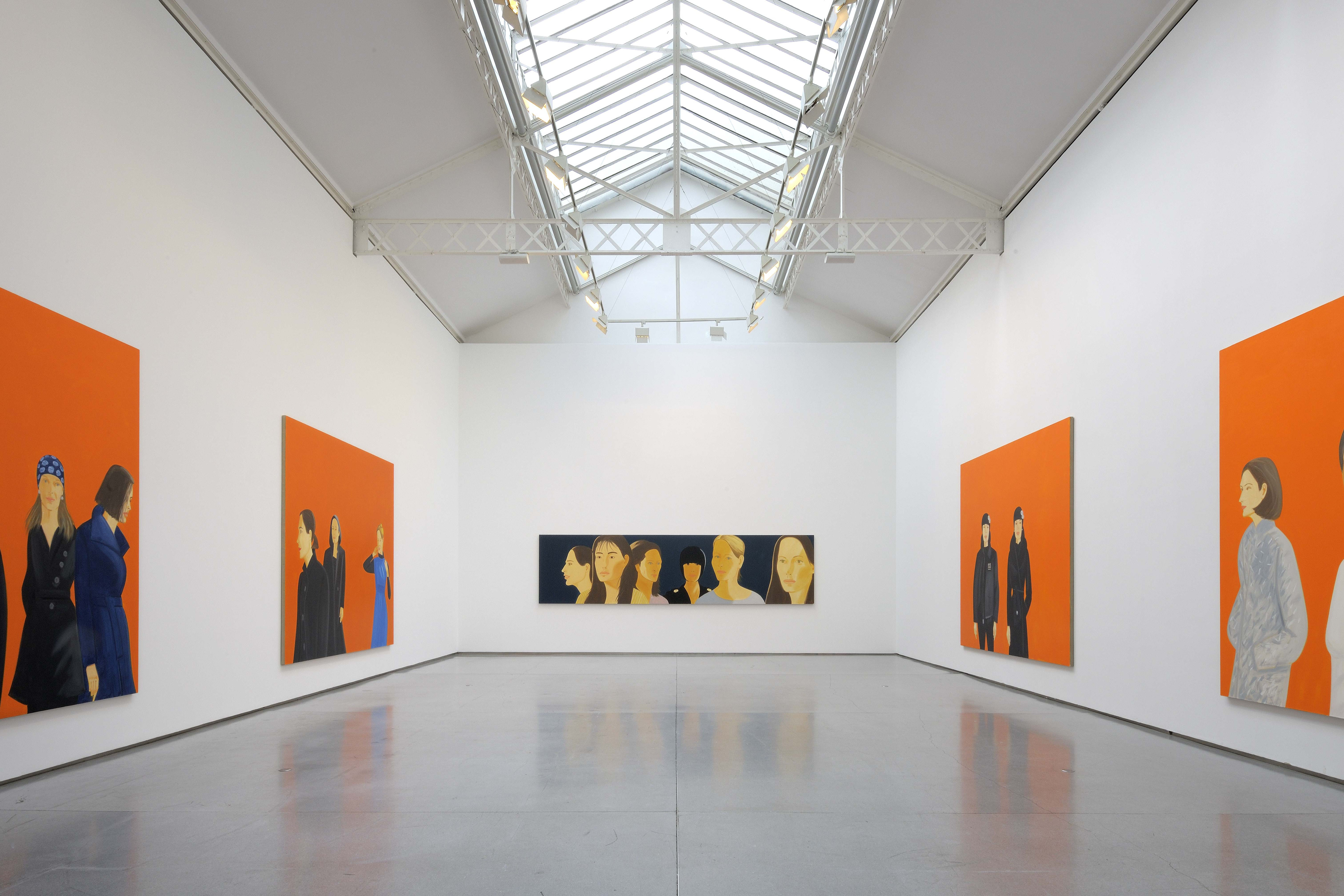 Alex KATZ, installation view, January/February 2009